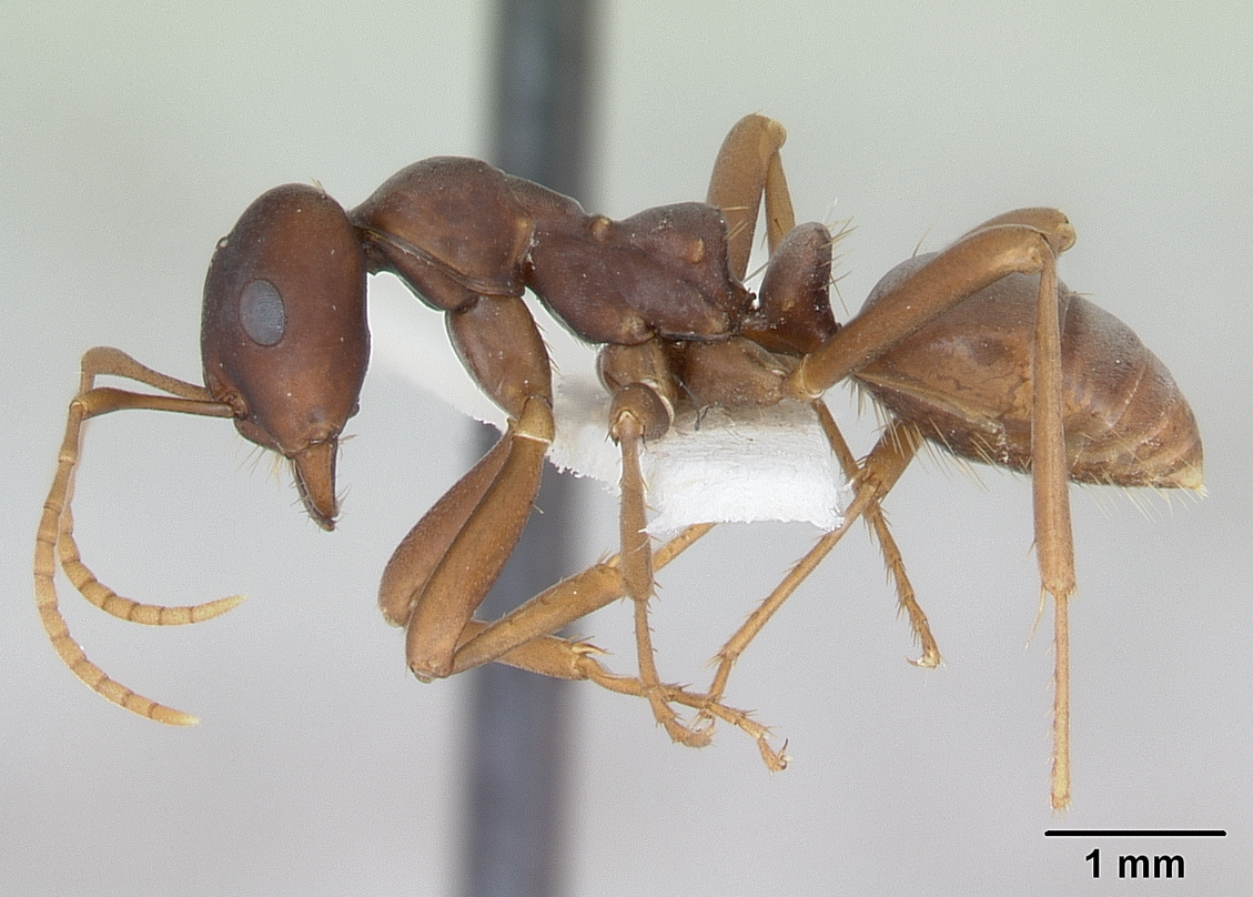 Profile view of ant Polyergus samurai specimen casent0173324.